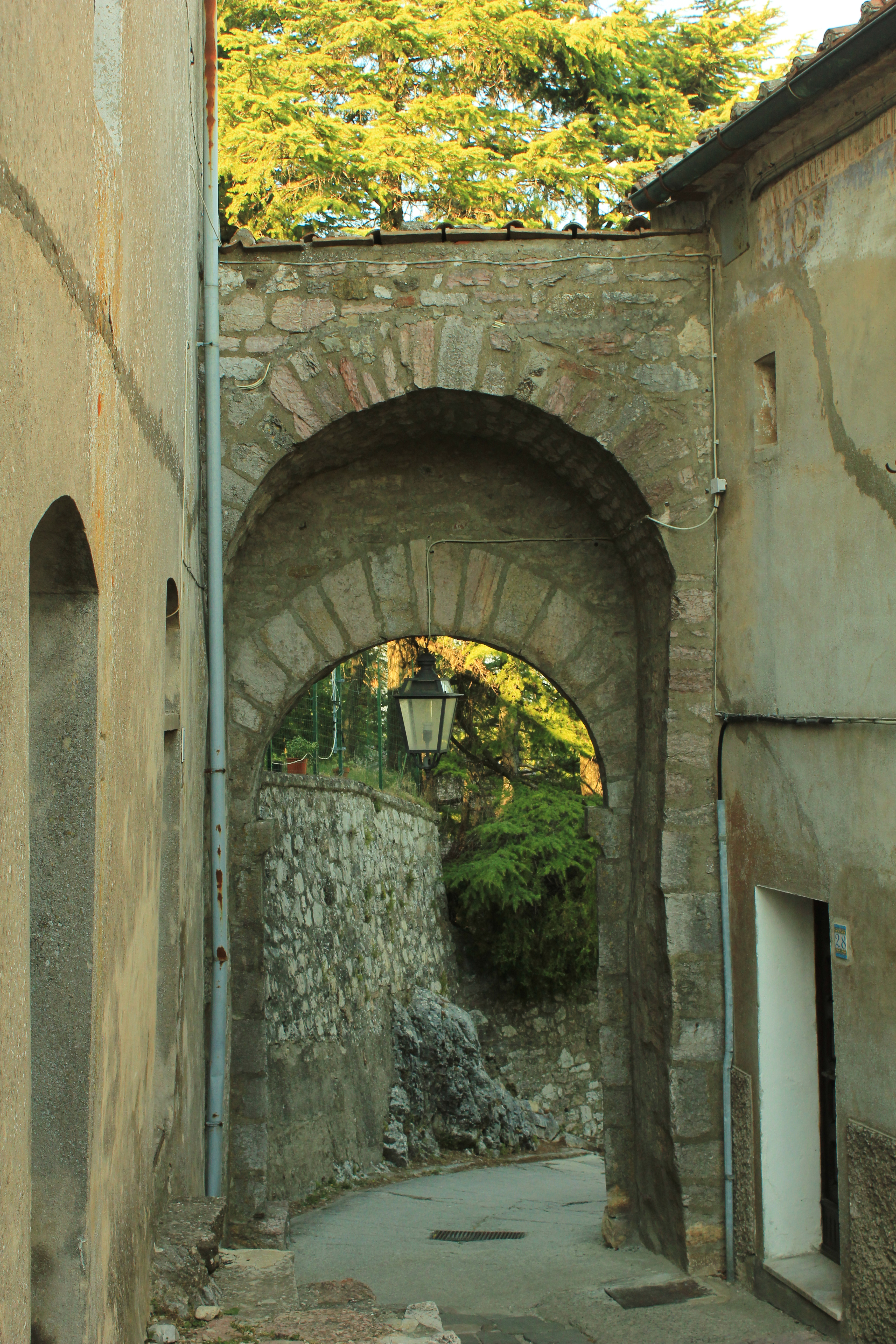 Porta Senese in Gerfalco, Grosseto, Italy.